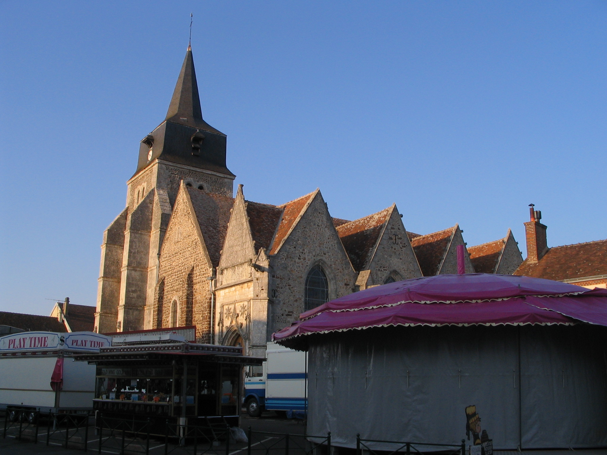 The church of Arrou, Eure-et-Loir, France